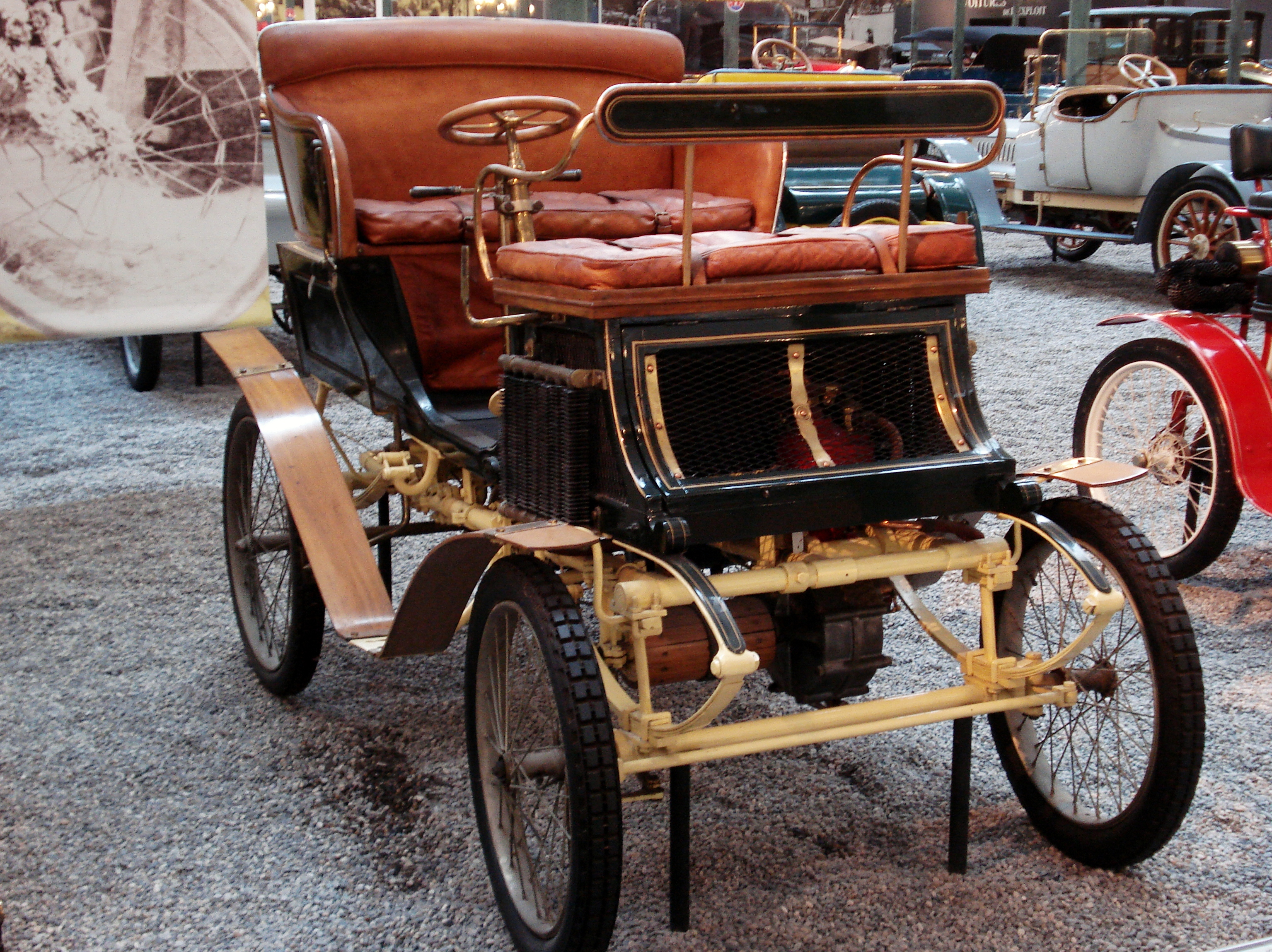 1900 Barré Vis-à-vis at the Cité de l’Automobile. (The car's museum placard misdates it; see Category:1900 Barré Vis-à-vis in the Musée National de l'Automobile for details.)